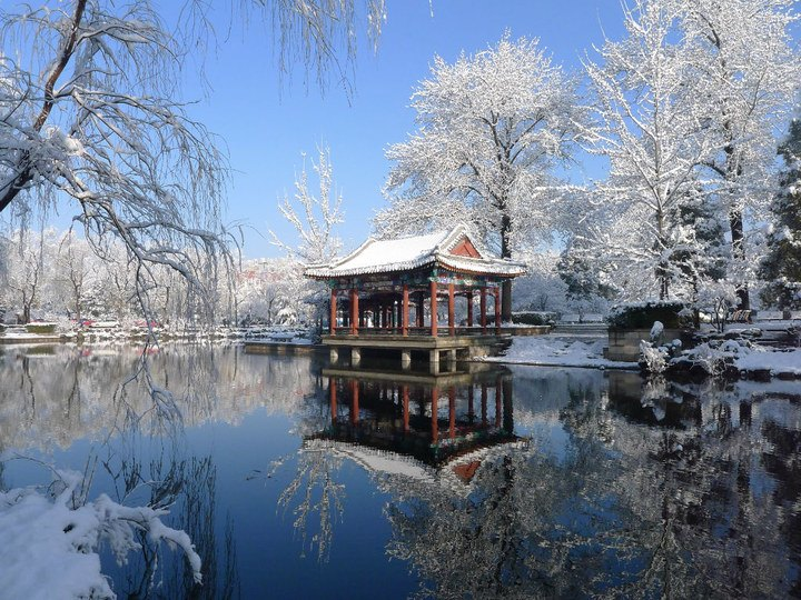 Own photograph